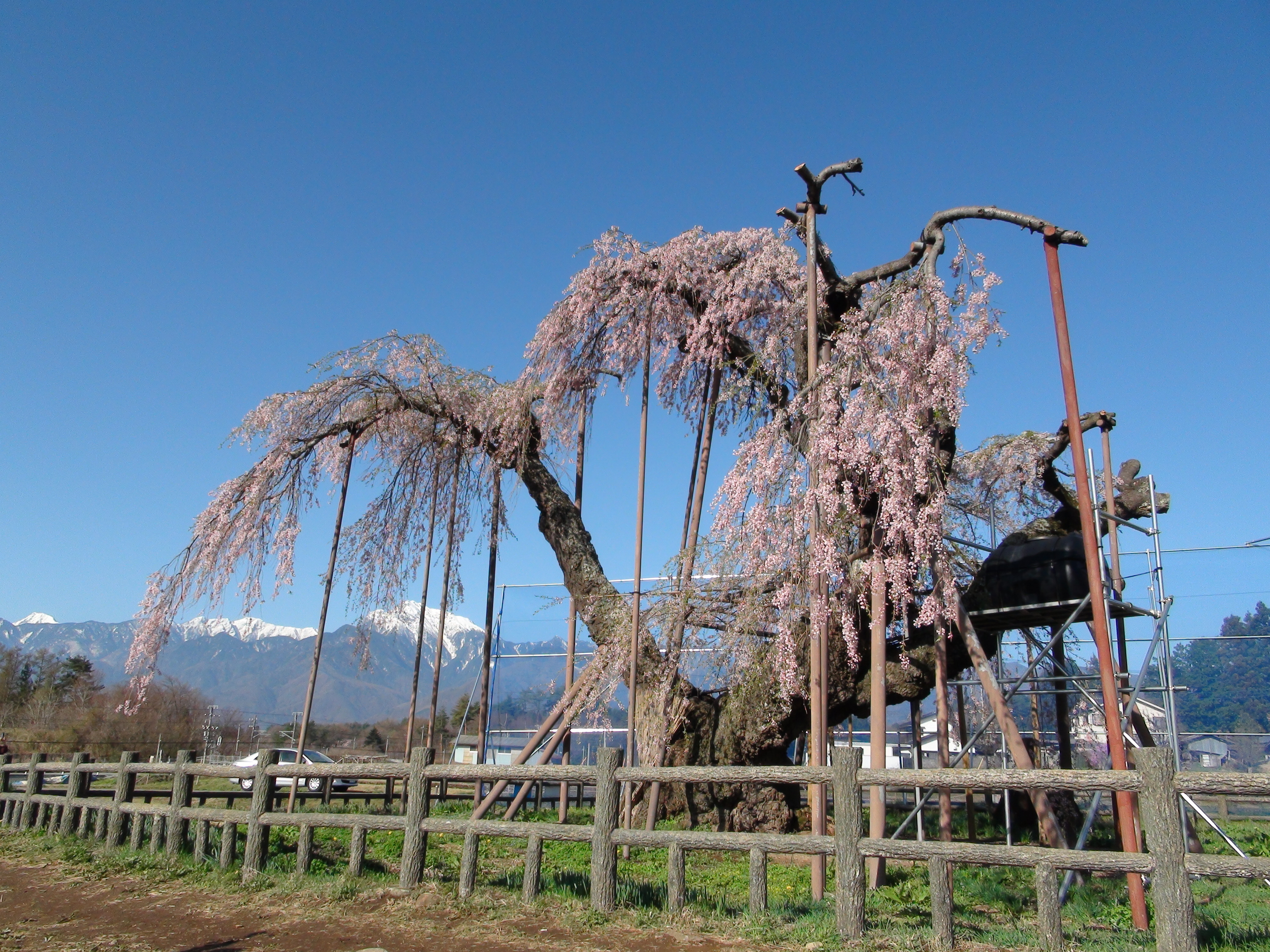 Shinden-no Oitozakura